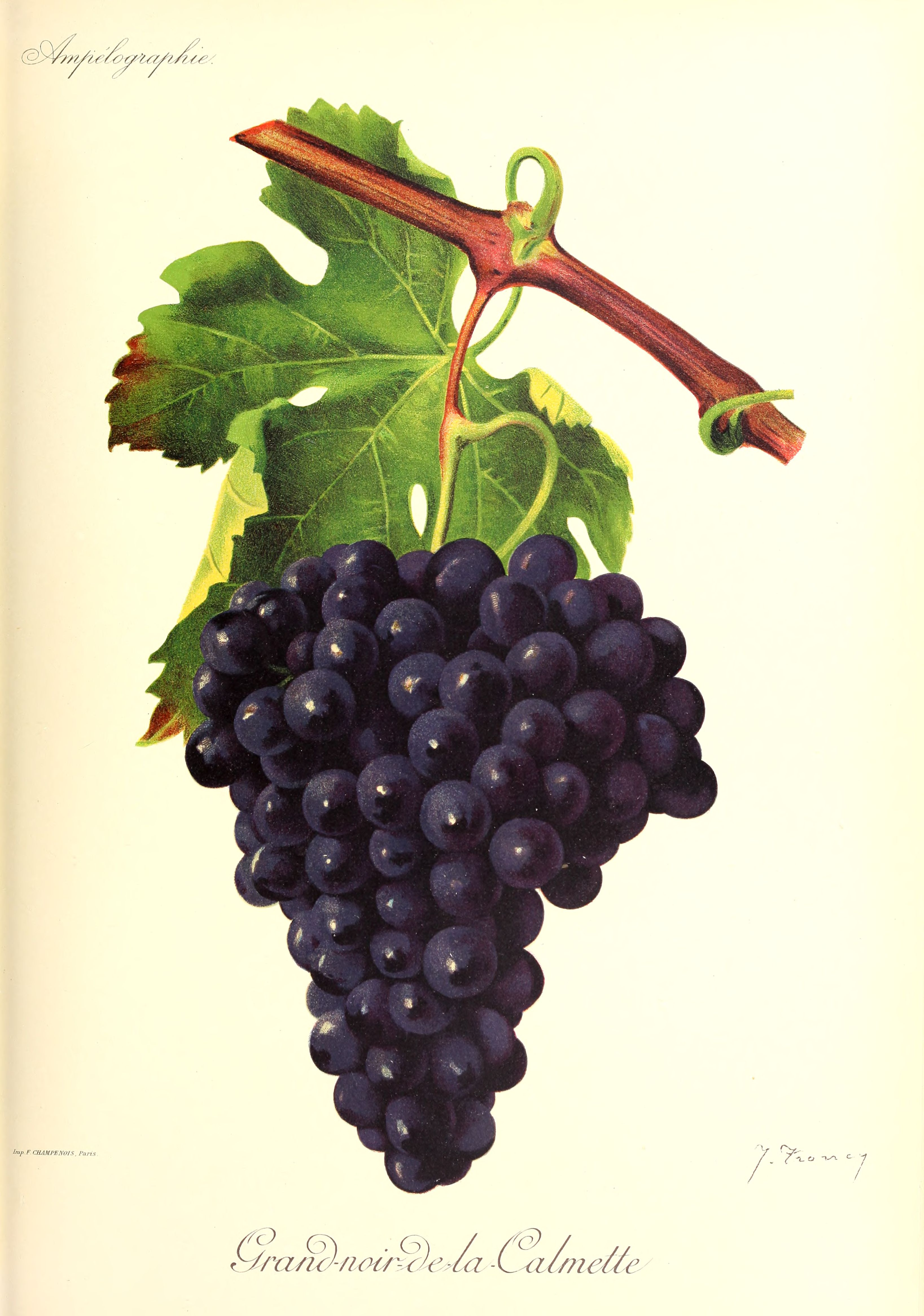 Grand noir de la Calmette; Public domain colour plate from Viala et Vermorel Ampélographie. Traité général de viticulture, Tome VI (1905).